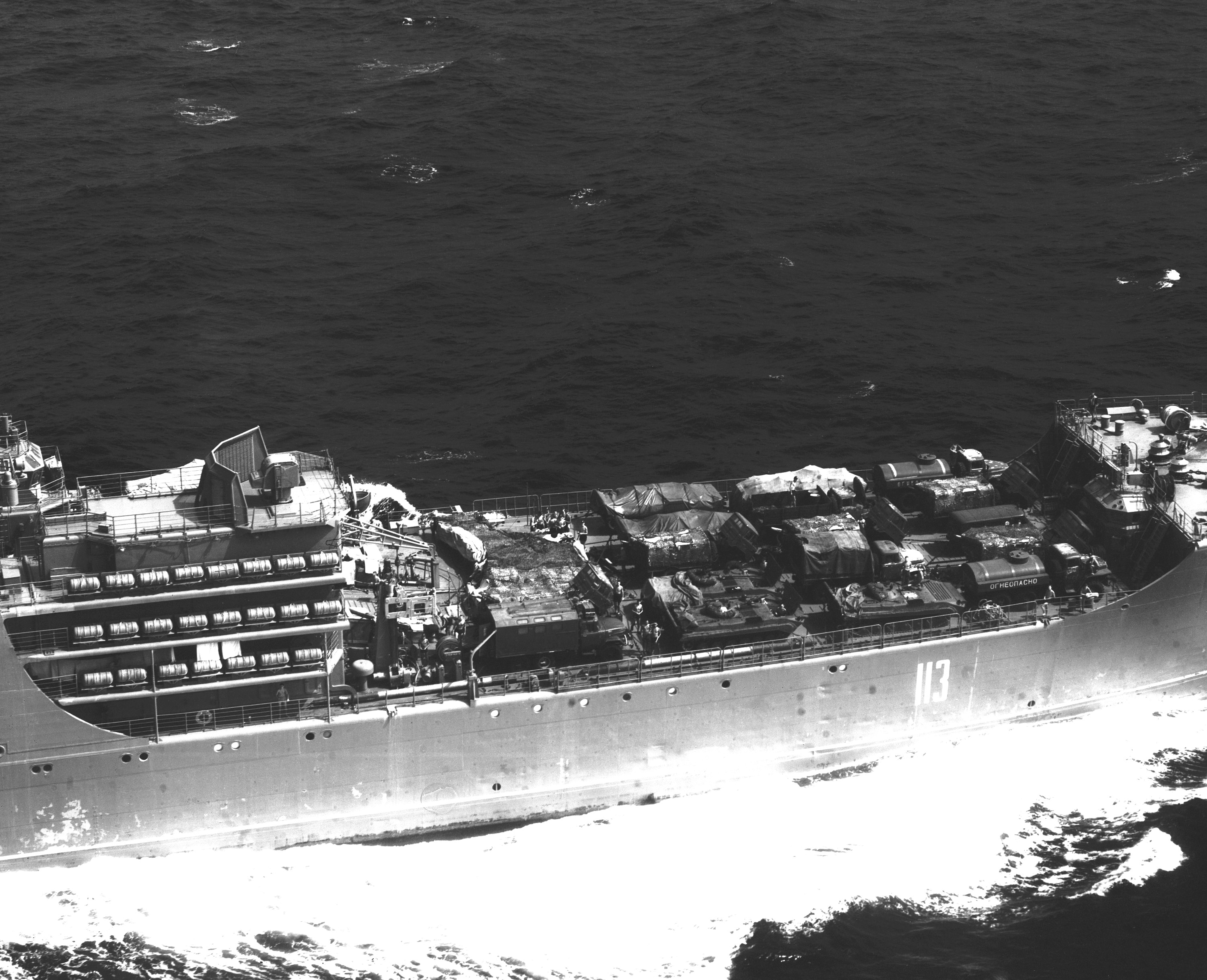 A starboard amidships view of the Soviet helicopter/dock landing ship Ivan Rogov with soviet military equipment underway.